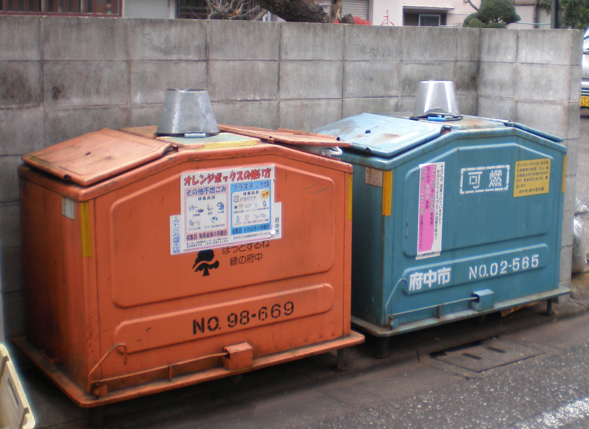 Garbage Containers at Fuchu City, Tokyo